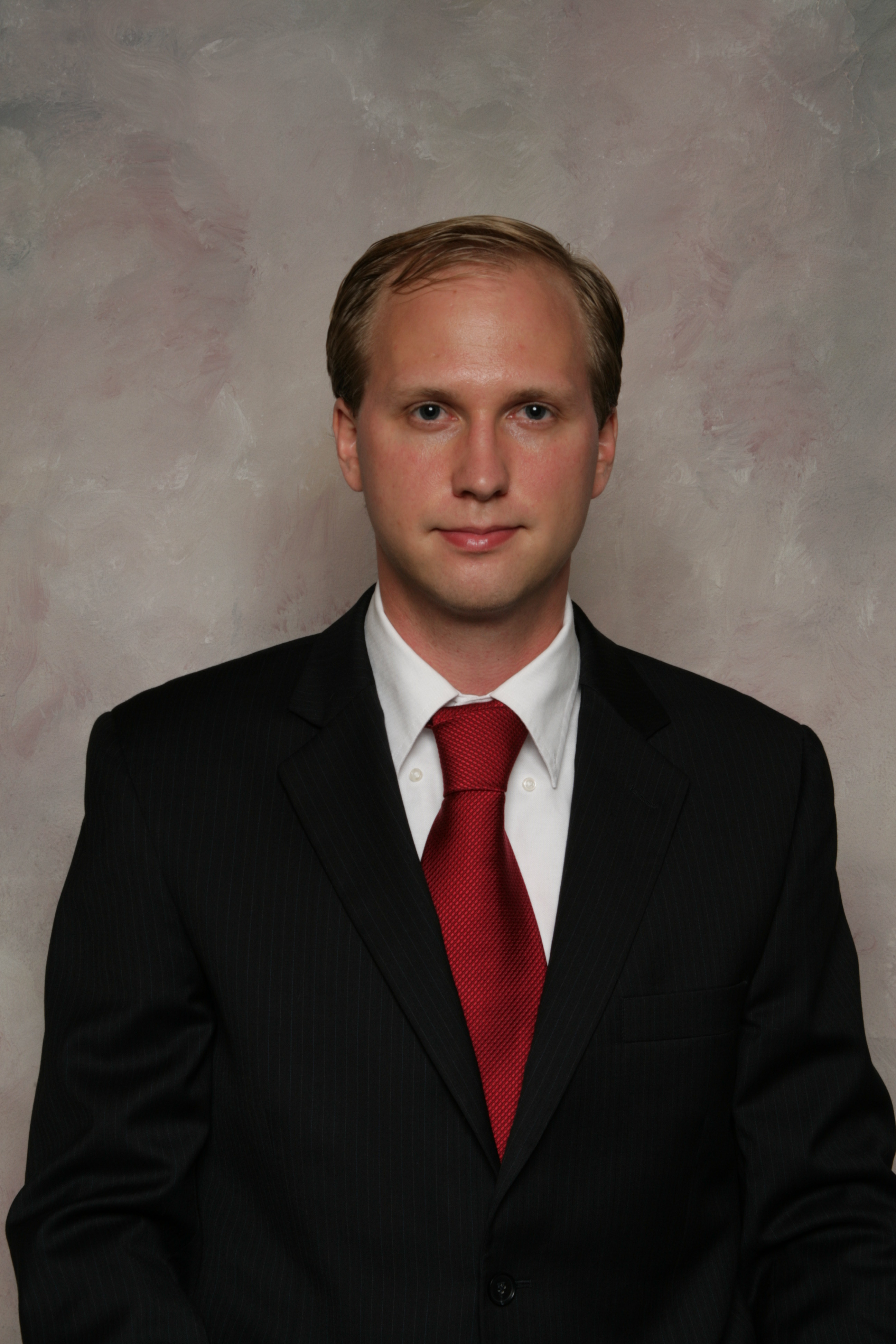 Campaign picture of . Rights owned by myself; hereby released into public domain.